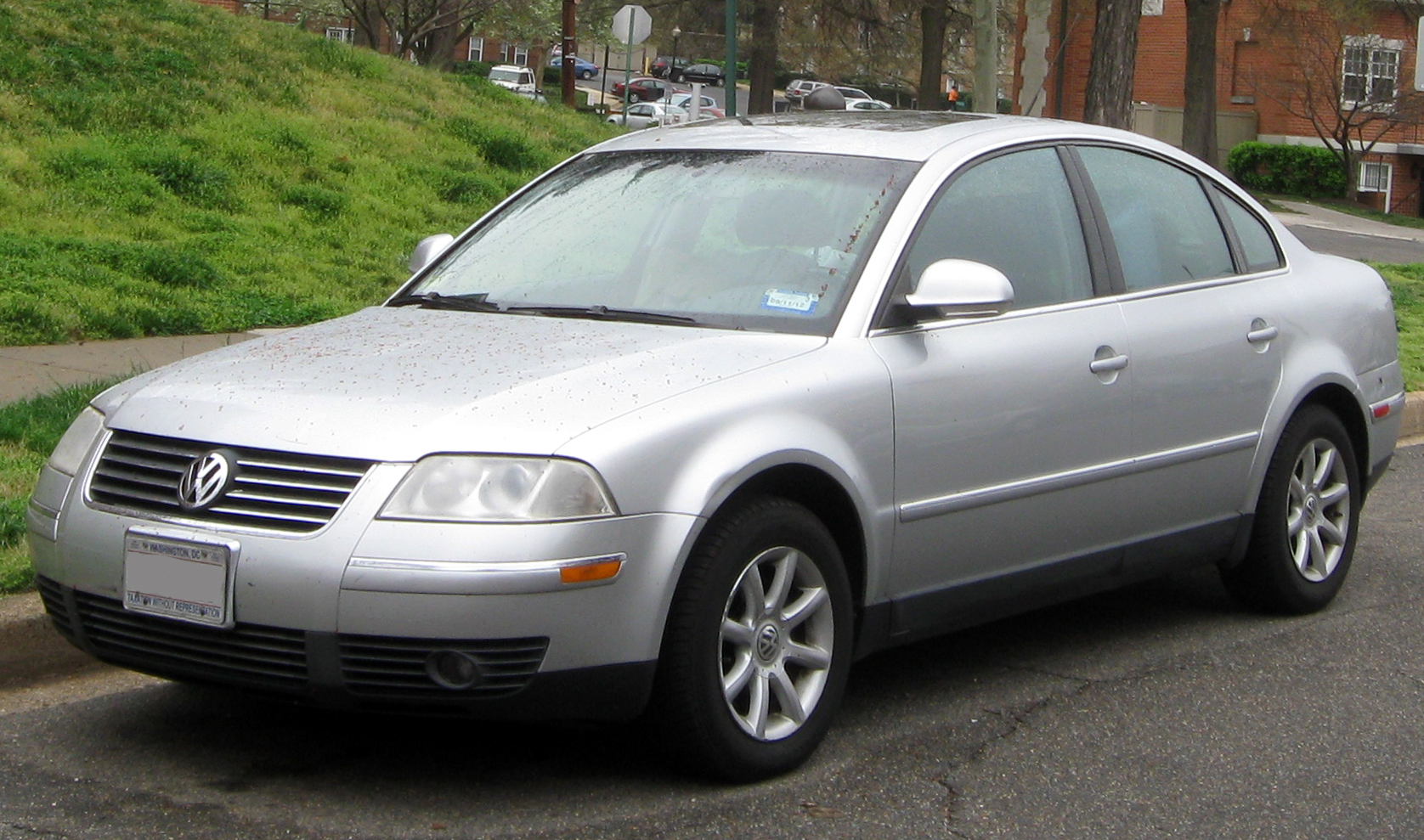 2001-2005 Volkswagen Passat photographed in Washington, D.C., USA.